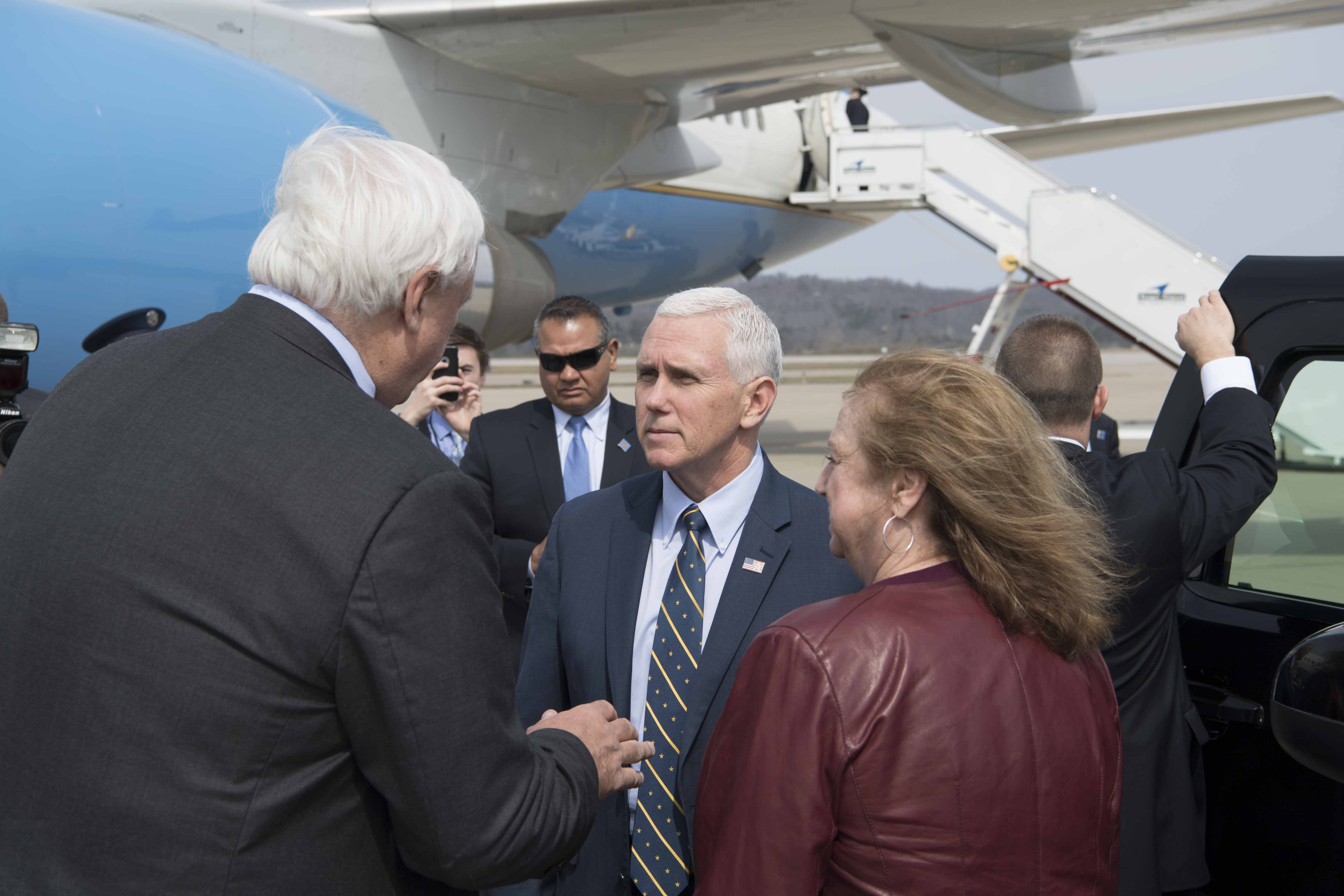 Vice President Mike Pence meets West Virginia Gov. Jim Justice and his wife Cathy after arriving at McLaughlin Air National Guard Base, W.Va., March 25, 2017. Pence, along with Small Business Administration administrator Linda McMahon, are visiting the state to meet with small business owners. (U.S. Air National Guard Photo by Tech. Sgt. De-Juan Haley)